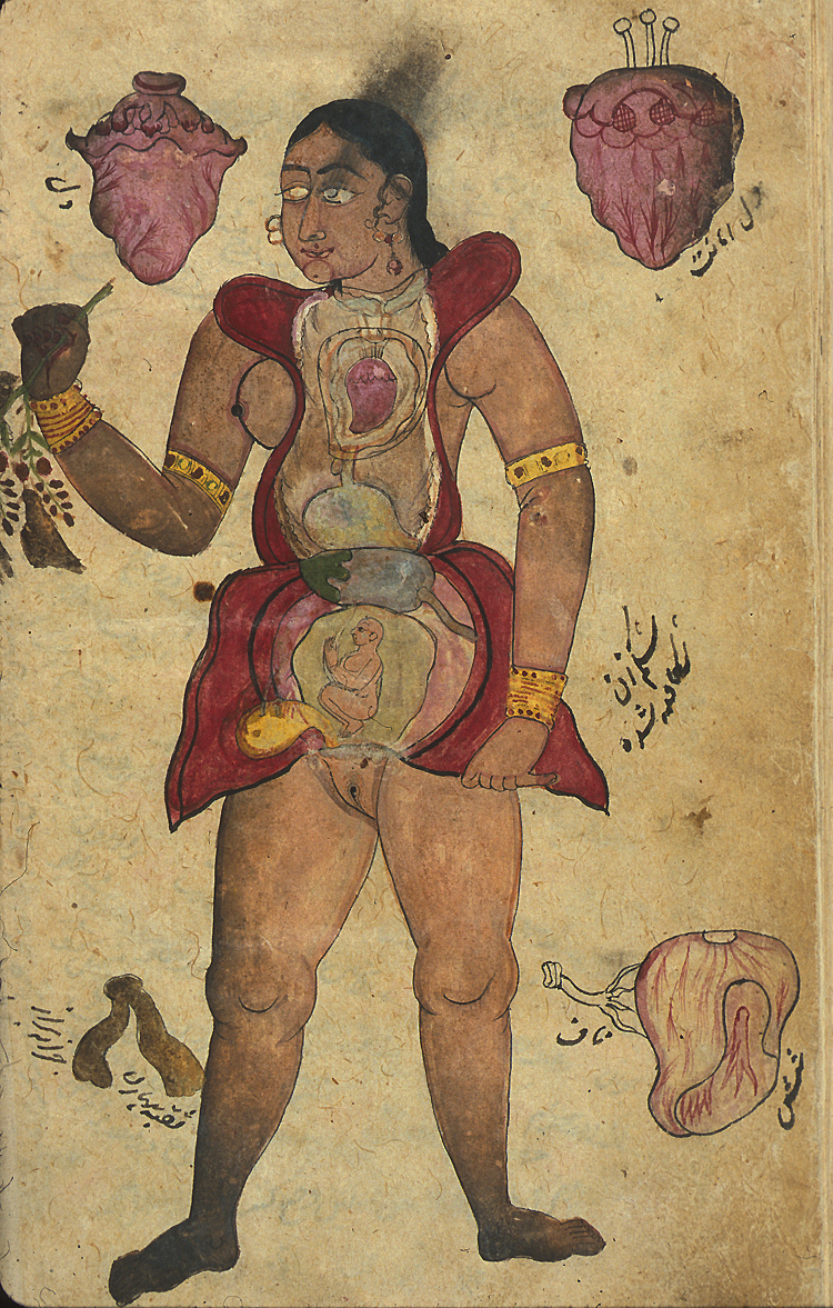 anatomy of pregnant woman made by Muḥammad Arzānī (d. 1722/ 1134) ink and opaque watercolors, of a pregnant woman with abdomen and chest opened to reveal the internal organs and fetus. Surrounding the figure are drawings of [at the top] two hearts, [lower right] the lungs India